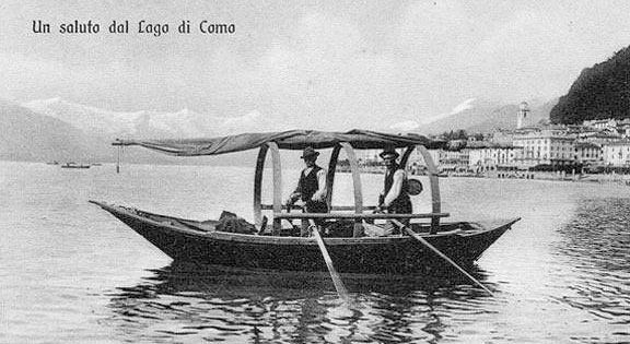 Batèl: typical boat of Lake Como